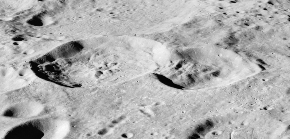 Shirakatsi and Dobrovol'skiy, on the moon.